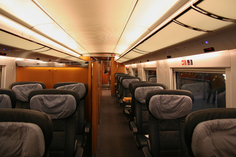 Interior of a first-class car of an ICE-TD train.